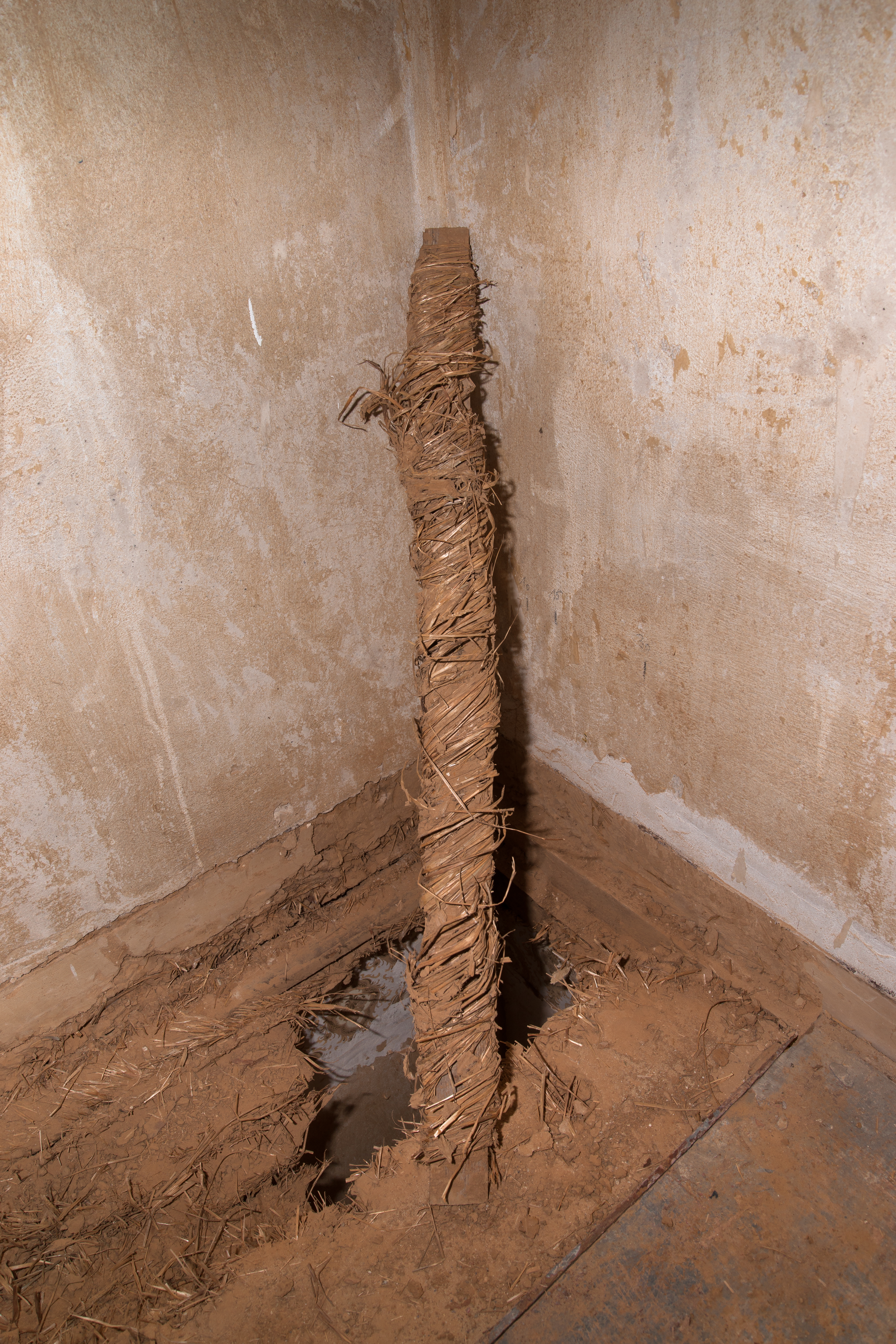 Cob construction from 1880 with stakes coiled up with straw. Loam is already detached